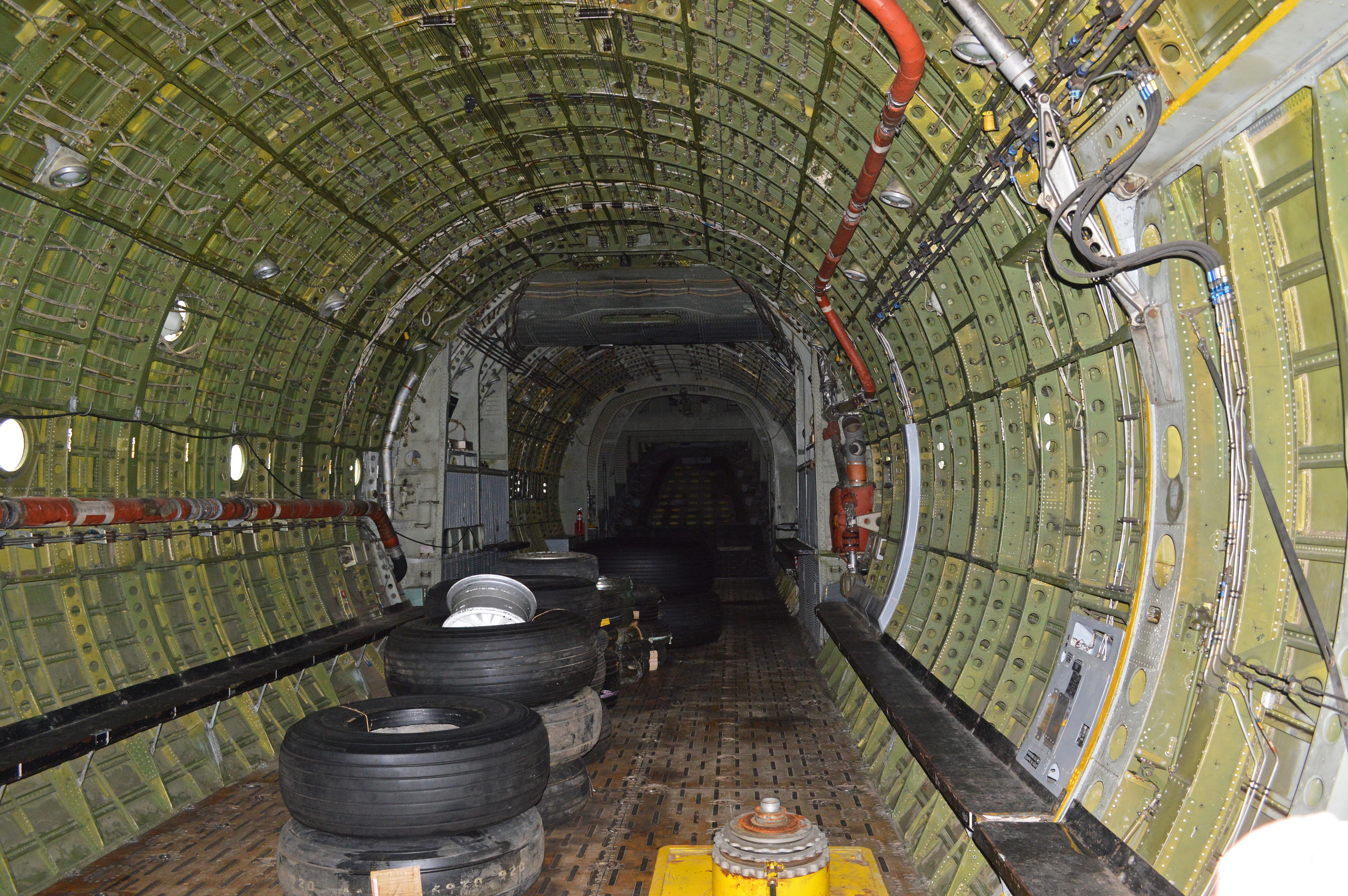 This is view looking aft in the cavernous interior of a Douglas Cargomaster, designed to carry USAF Atlas, Titan or Minuteman ballistic missiles. US military serial 56-1999 and c/n 45164, this example is on display at the Travis AFB Heritage Center, CA. 5th March 2016